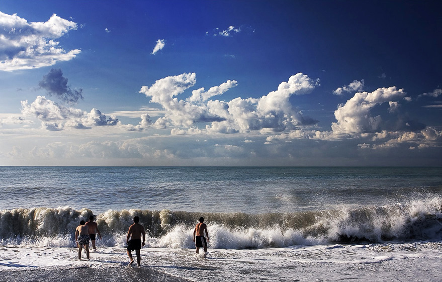 The coasts of Batumi, Georgia (Europe)